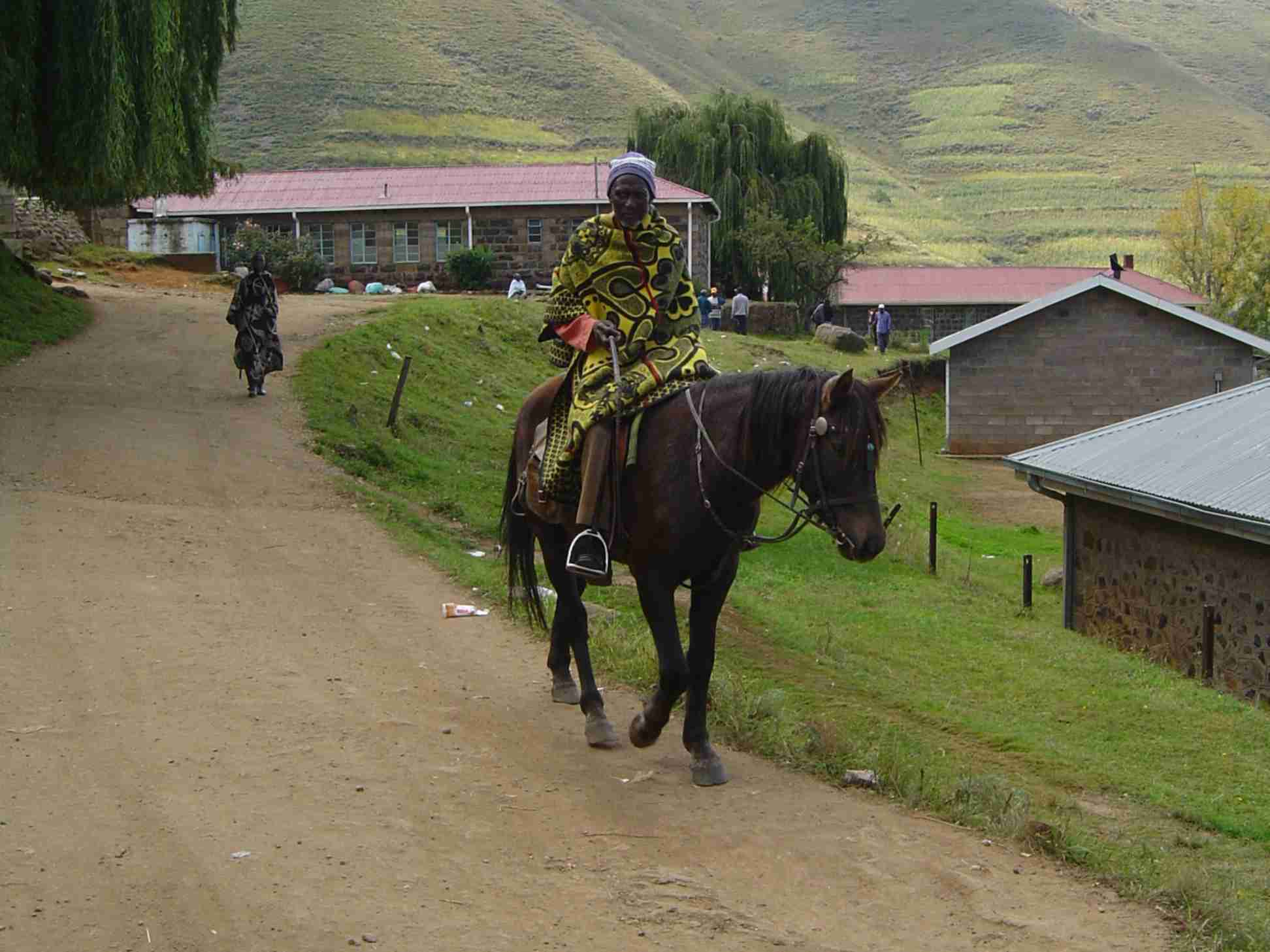 Mosotho horseman